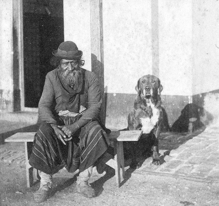 Gaucho with his dog. "Paisano con perro", original title for the photo.